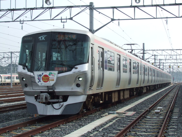 Tsukuba Express TX-2000 series EMU at Moriya depot